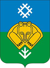 Syktyvkar (Komi), coat of arms (2008)